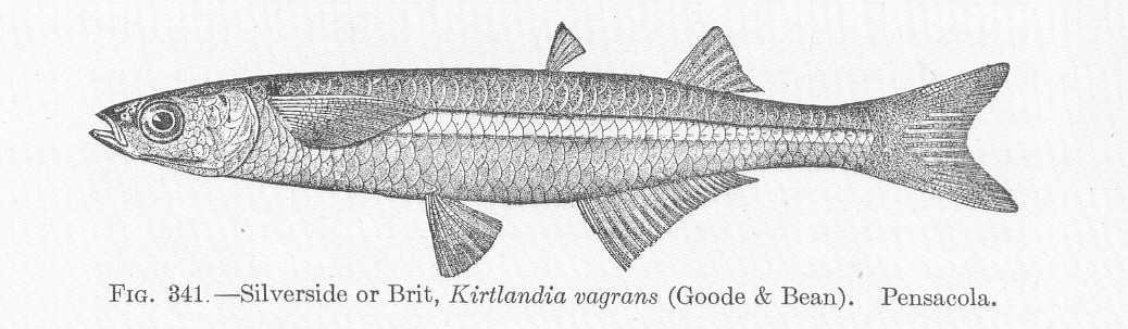 Silverside or Brit, Kirtlandia vagrans (Goode & Bean). Pensacola Subject: Silversides Tag: Fish